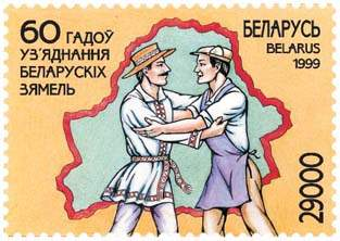 Stamp of Belarus